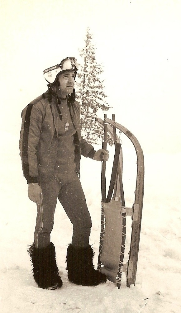 Nicolae Stavarache Pioneer of Romanian luge